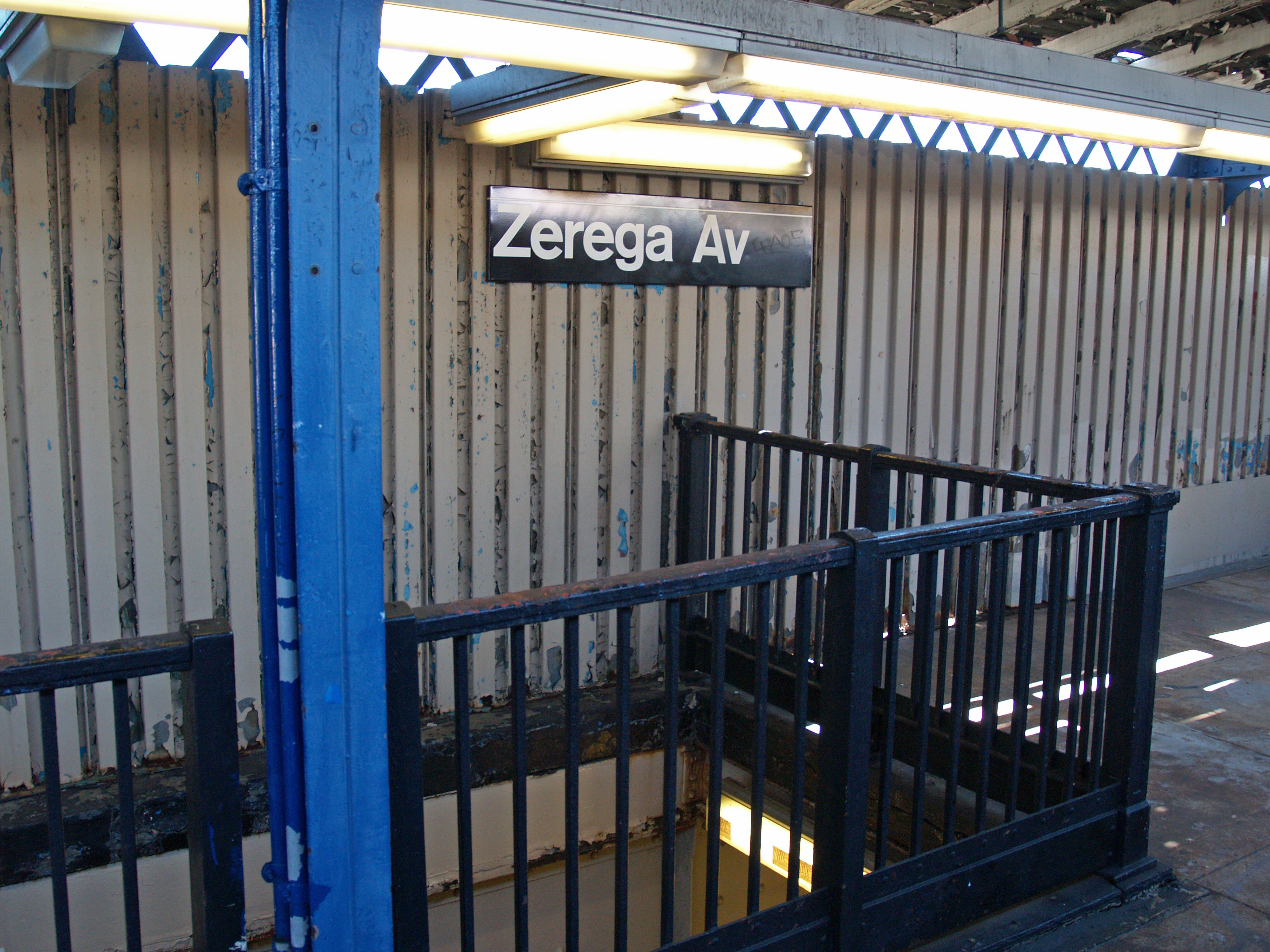 Zerega Avenue (IRT Pelham Line) by David Shankbone